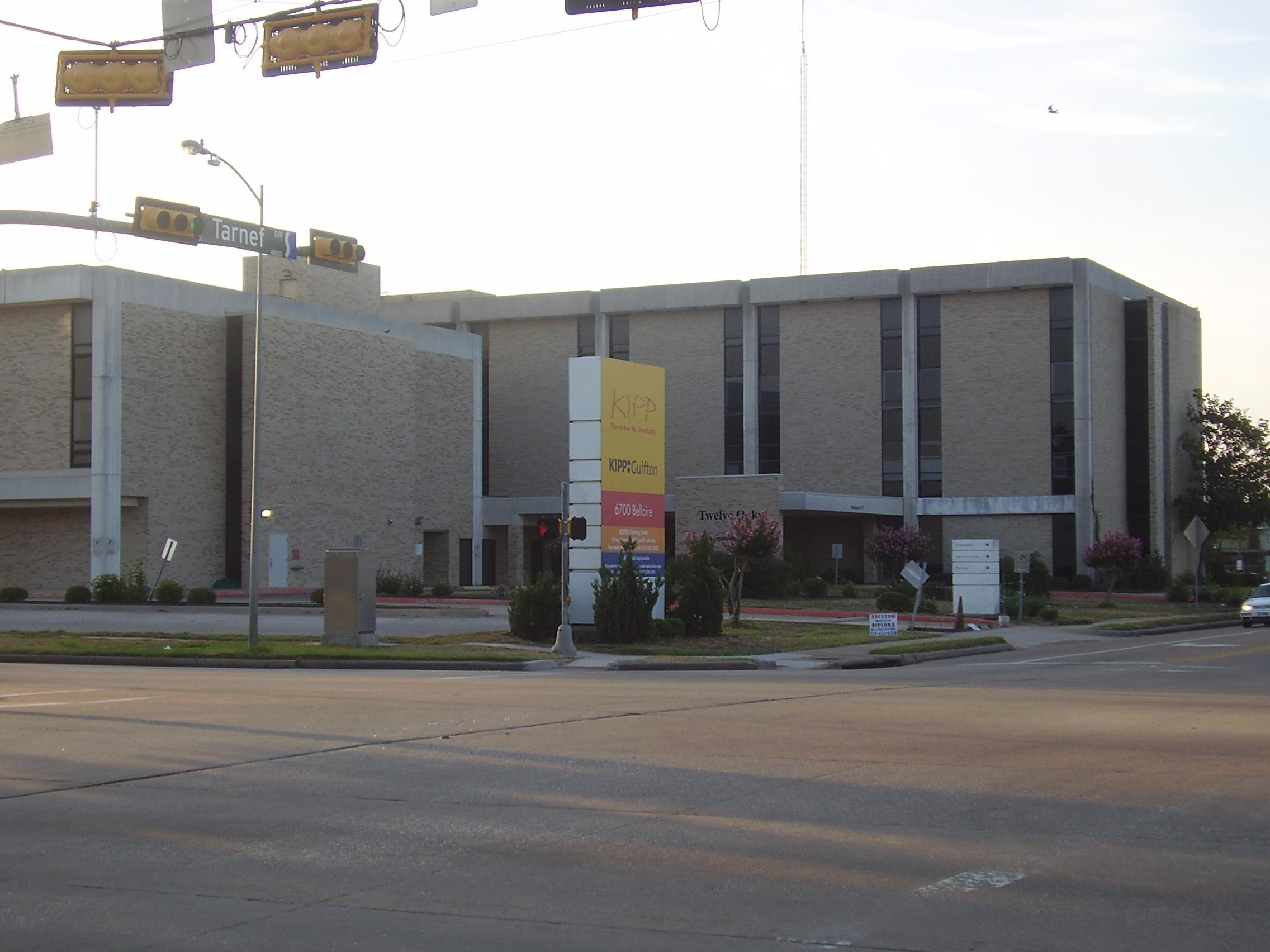 KIPP Gulfton - Formerly Twelve Oaks Hospital